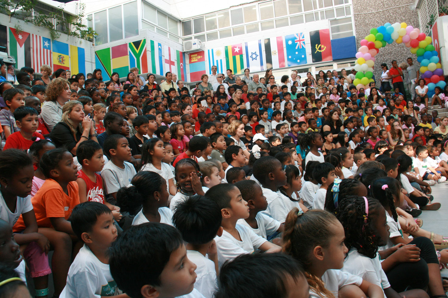 School year opening day at Biyalik Rogazin school